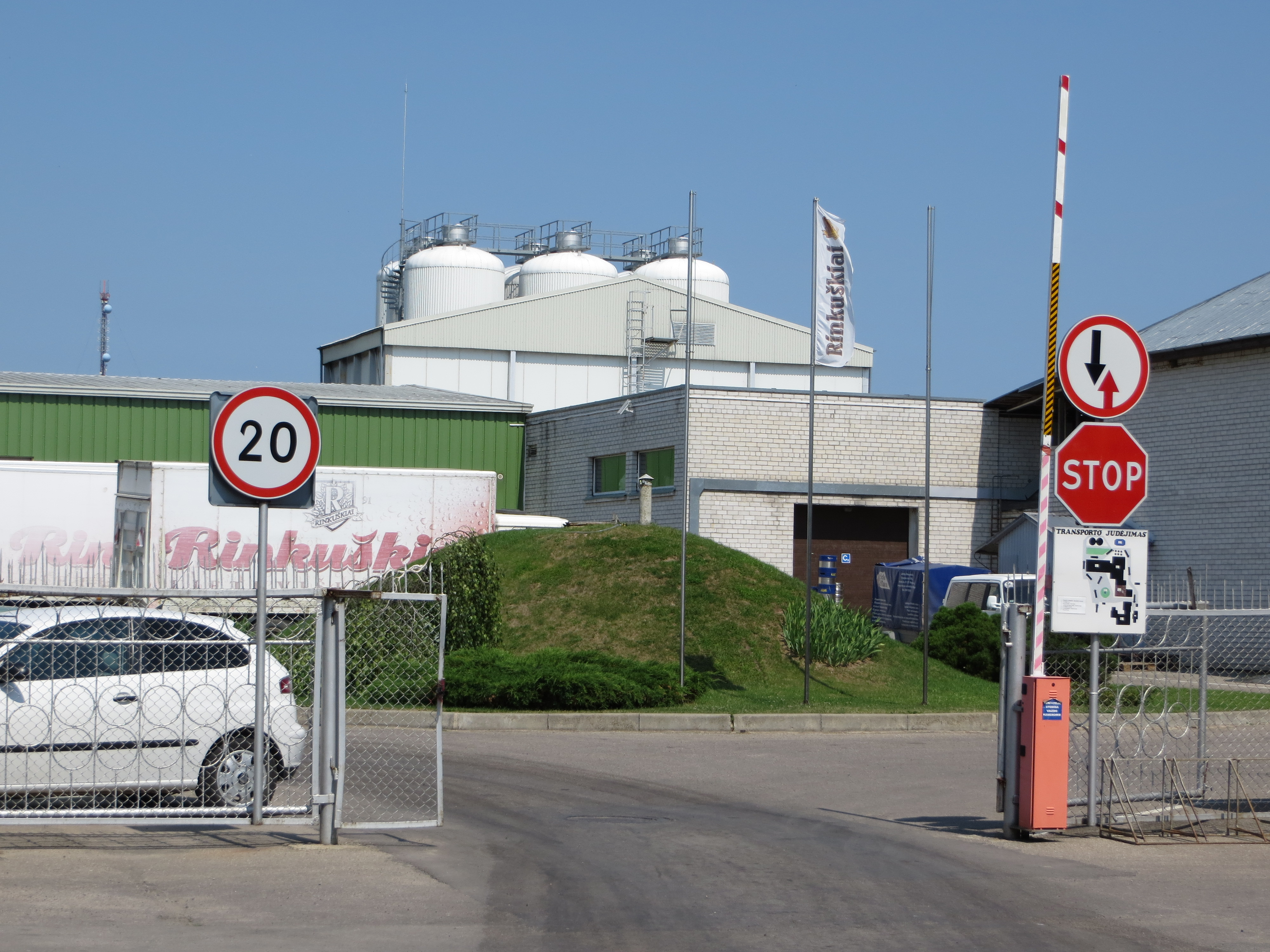 Looking in through the gates at Rinkuškiai brewery established in 1991 just outside Biržai, Lithuania.